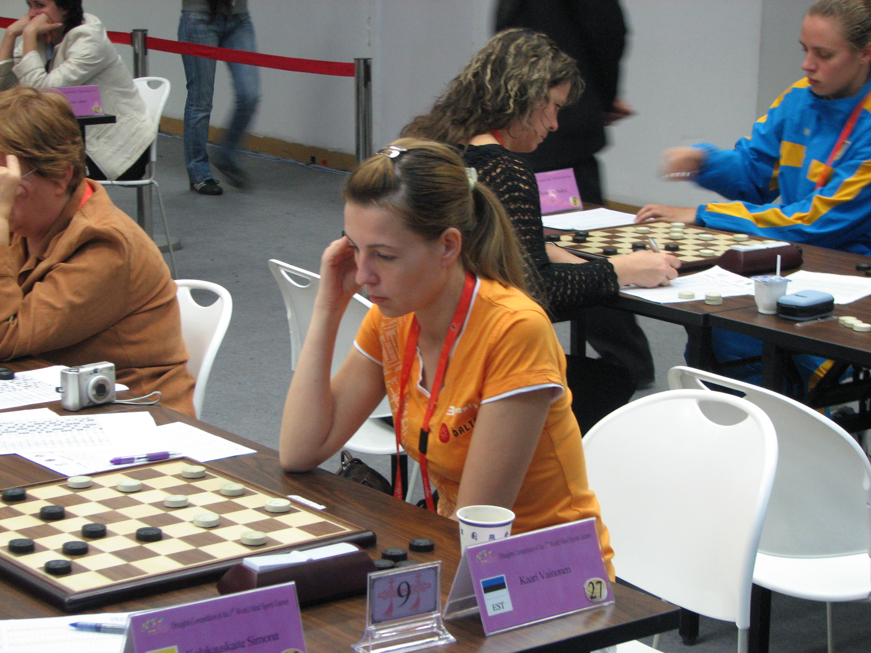 Kaari Vainonen, Estonian draughts player, at 1st WMSG in Beijing 2008